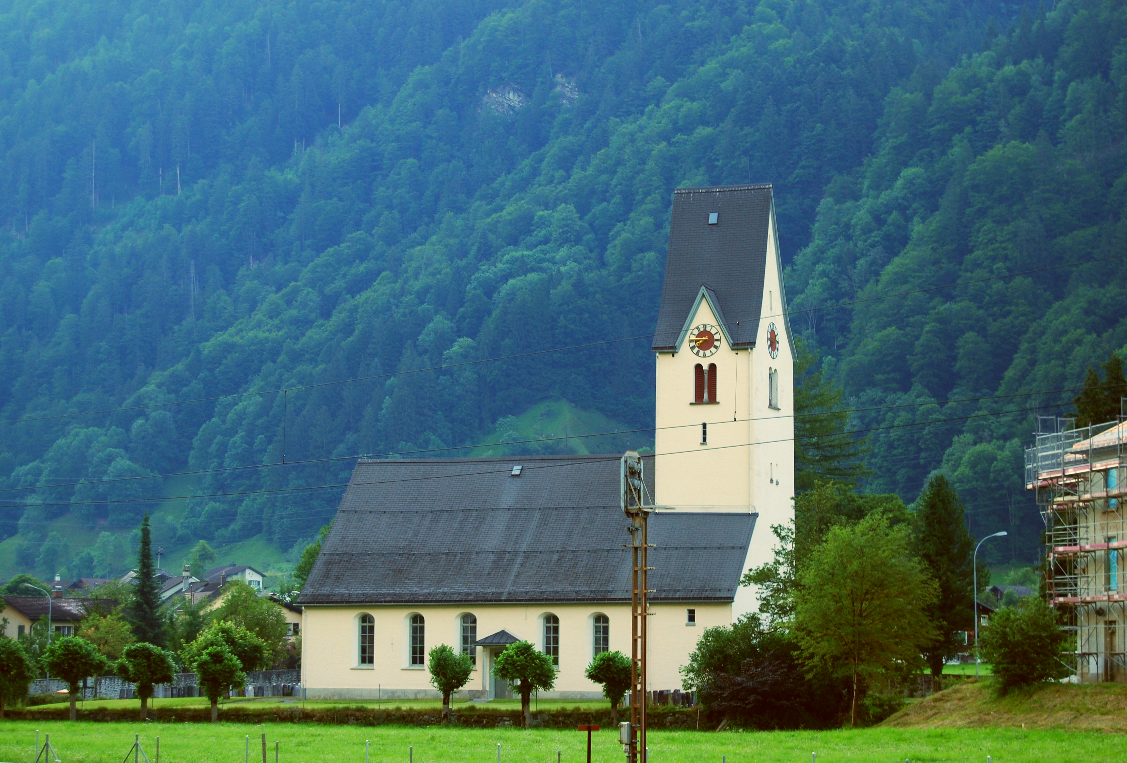 Church of Betschwanden, canton of Glarus, SwitzerlandEsperanto: Preĝejo de Betschwanden, Kantono Glaruso, Svislando